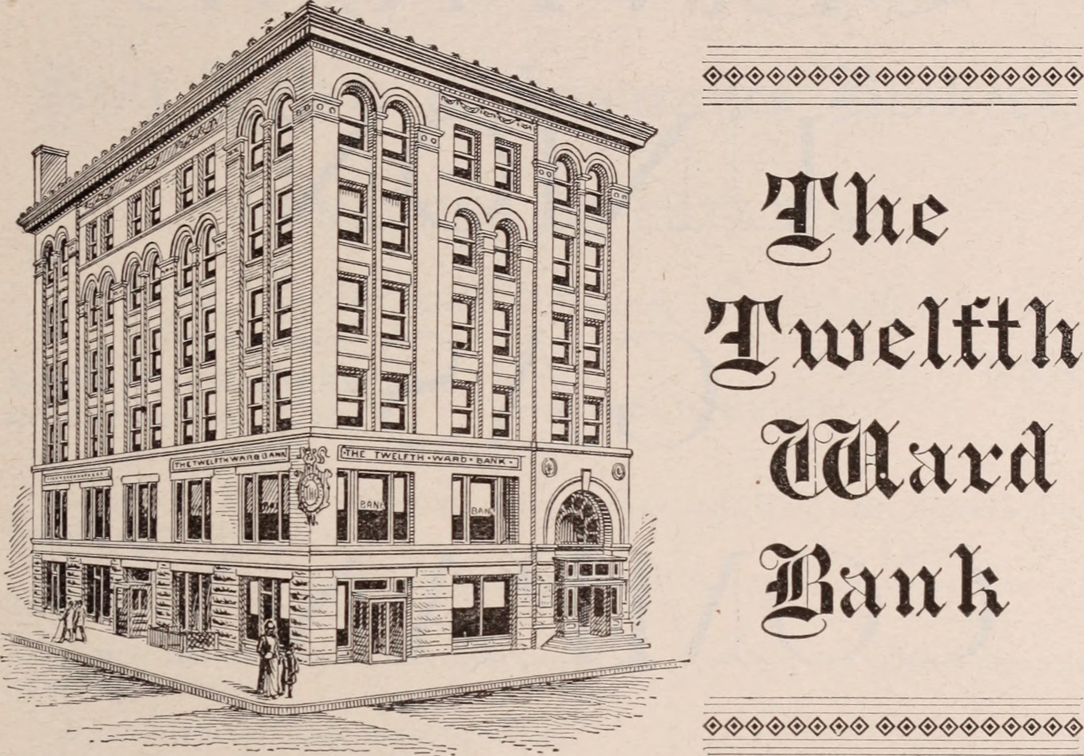 Title: The Great north side, or, Borough of the Bronx, New York Year: 1897 (1890s) Authors: Durst, Seymour B., 1913-, former owner. NNC North Side Board of Trade (Bronx, New York, N.Y.) Subjects: Publisher: New York : Knickerbocker Press Text Appearing Before Image: CAPITAL, $200,000. SURPLUS, $140,000. Text Appearing After Image: EDWARD P. STEERS, President. F. B. FRENCH, Cashier. ISAAC A. HOPPER, Vice-President.CHAS. W. DAYTON, Counsel. ■ Corjwration, Finn, Individual and Family Accounts Solicited. Drafts issued on all parts of Murope. Offices and Lodge Rooms to let with all modern conveniences in The Twelfth Ward Bank BuildiRg, Corner 125th Street and Lexington Avenue, NEW YORK CITY. 3 CENTRALUNIONGASCOMPANY. Wm. R. Beal, President. A. F. Reichelt, Secy and Treasr. Thaddeus R. Beal, Supt. OFFICE : Alexander Avenue Cor. East 142CI Street. WORKS :138th Street and East River. 4 John G. Borgstede. Horatio C. Klenke. J. Henry Borgstede, Jr. BORGSTEDE & KLENKE,§Ual Instate & Insurance lookers, MANAGERS OF ESTATES, 3273 3d Ave. and 20J-20Q East 54th St., YORK. rnrrUoR„1oo:aL,a.XChanee (TELEPHONE) At 3273 3d Ave. we make a specialty of 23d and 24th Ward Lots, Houses and In-vestment Properties. At 207-209 E. 54th St. we sell Manhattan Island Investment properties ; flats andtenements and store property.